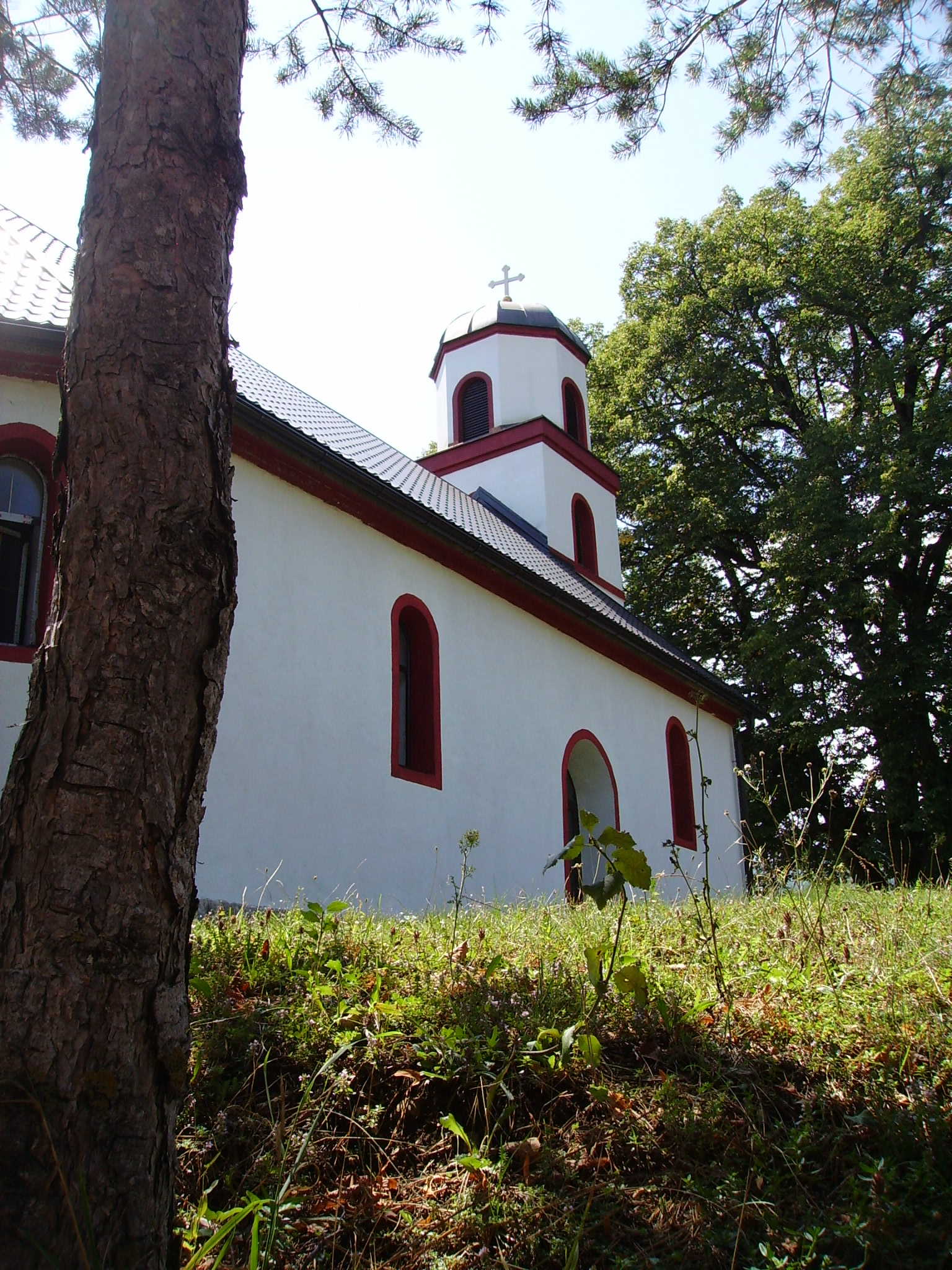 Serbian-orthodox church in Donji Vrbljani, Bosnia, Republika Srpska.